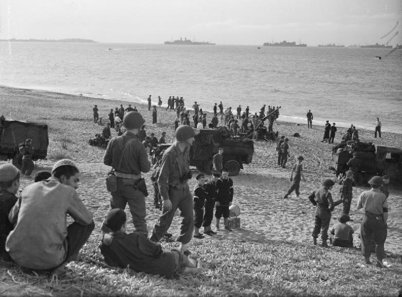 Operation Torch : British sailors and British and American soldiers on the beach near Algiers. A 40 mm Bofors gun can be seen further down the beach along with three lorries. November 1942.